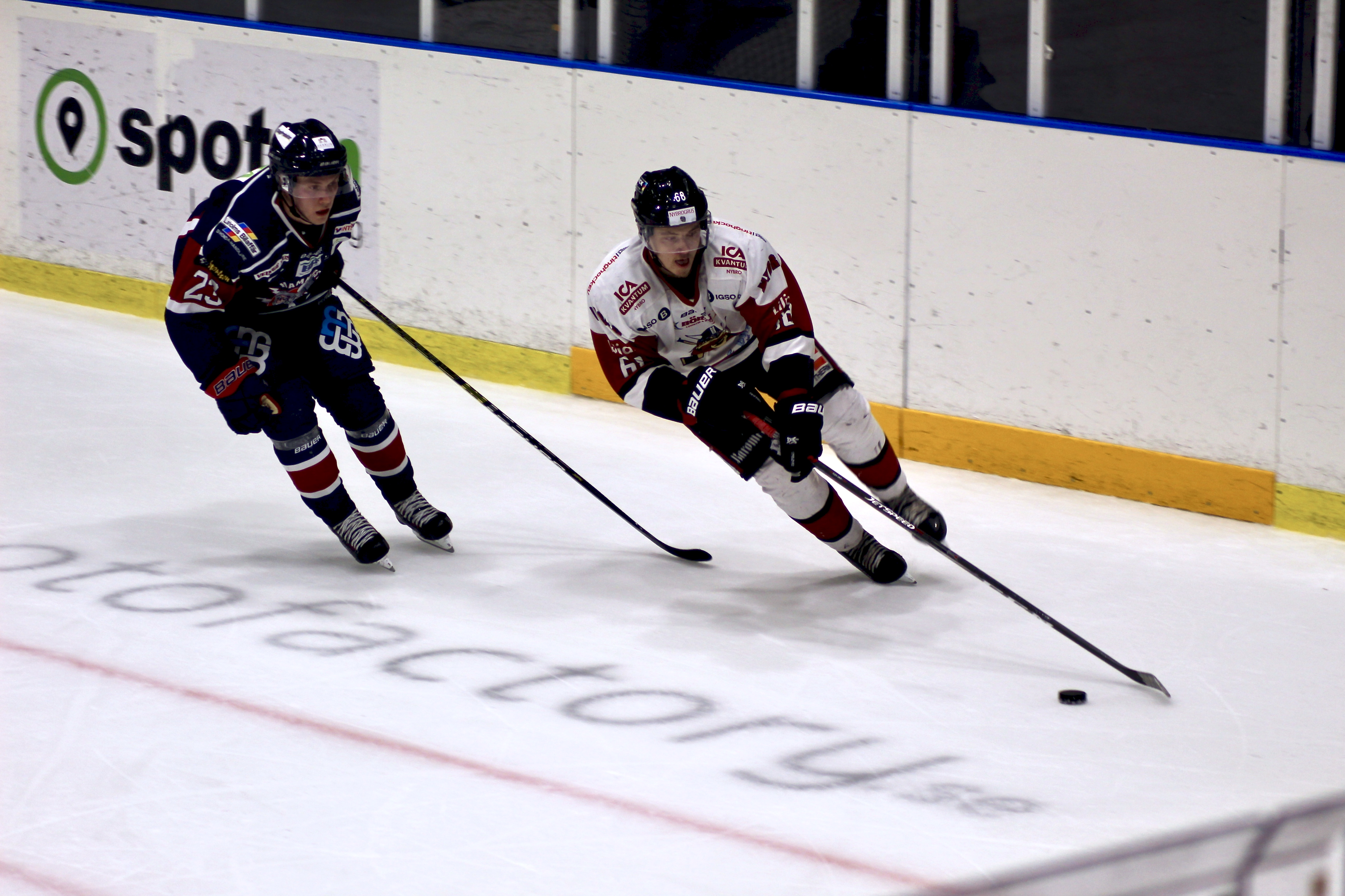 Robin Holm (Halmstad Hammers) and Robin Kokkonen (Nybro Vikings). Hockeyettan 2018-10-12 Halmstad Hammers–Nybro Vikings in Halmstad Arena. Final Score: 3–4.